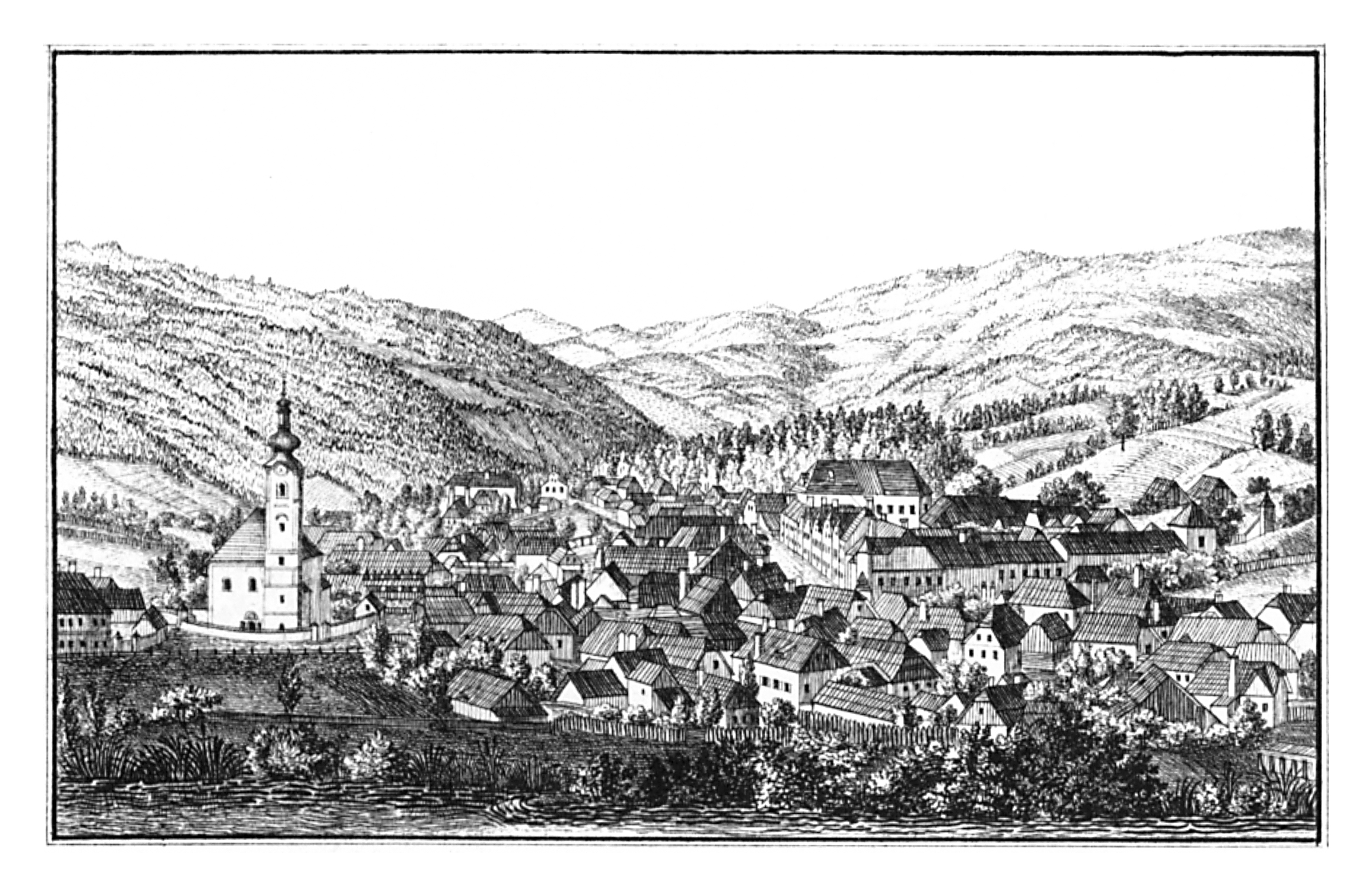 J. F. Kaiser - lithographirte Ansichten der Steyermärkischen Städte, Märkte und Schlösser, Graz 1824-1833 Joseph Franz Kaiser (1786–1859) Alternative names J. F. KaiserDescriptionAustrian printer and editorDate of birth/death 11 March 1786 19 September 1859Location of birth/death Graz (Styria) GrazAuthority control : Q1499963 VIAF: 30629353 ISNI: 0000 0000 3083 0153 LCCN: n87141671 GND: 129880159 NLP: A24960305 WorldCat creator QS:P170,Q1499963 . Scanprojekt Community Projektbudget 2012 This scan or this PDF-file was created within the GLAM-project Bookscanning, supported by Wikimedia Germany and Wikimedia Austria as a part of the community-project to capture books, documents and pictures which are not eligible to copyright or for which the copyright has expired. This document describes or depicts an object which is located in Austria today. Send requests for uncompressed scans to Hubertl. This work is in the public domain in its country of origin and other countries and areas where the copyright term is the author's life plus 100 years or less. You must also include a United States public domain tag to indicate why this work is in the public domain in the United States. This file has been identified as being free of known restrictions under copyright law, including all related and neighboring rights.